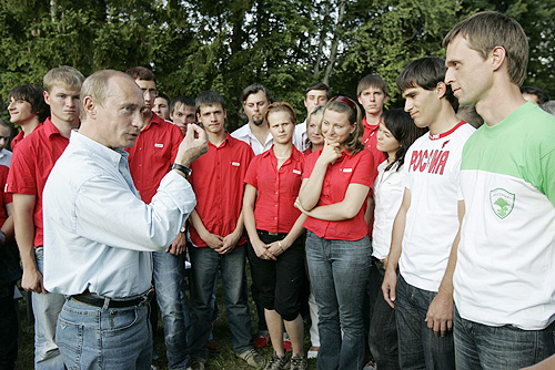 ZAVIDOVO, TVER REGION. Meeting with members of Russian youth organisations.